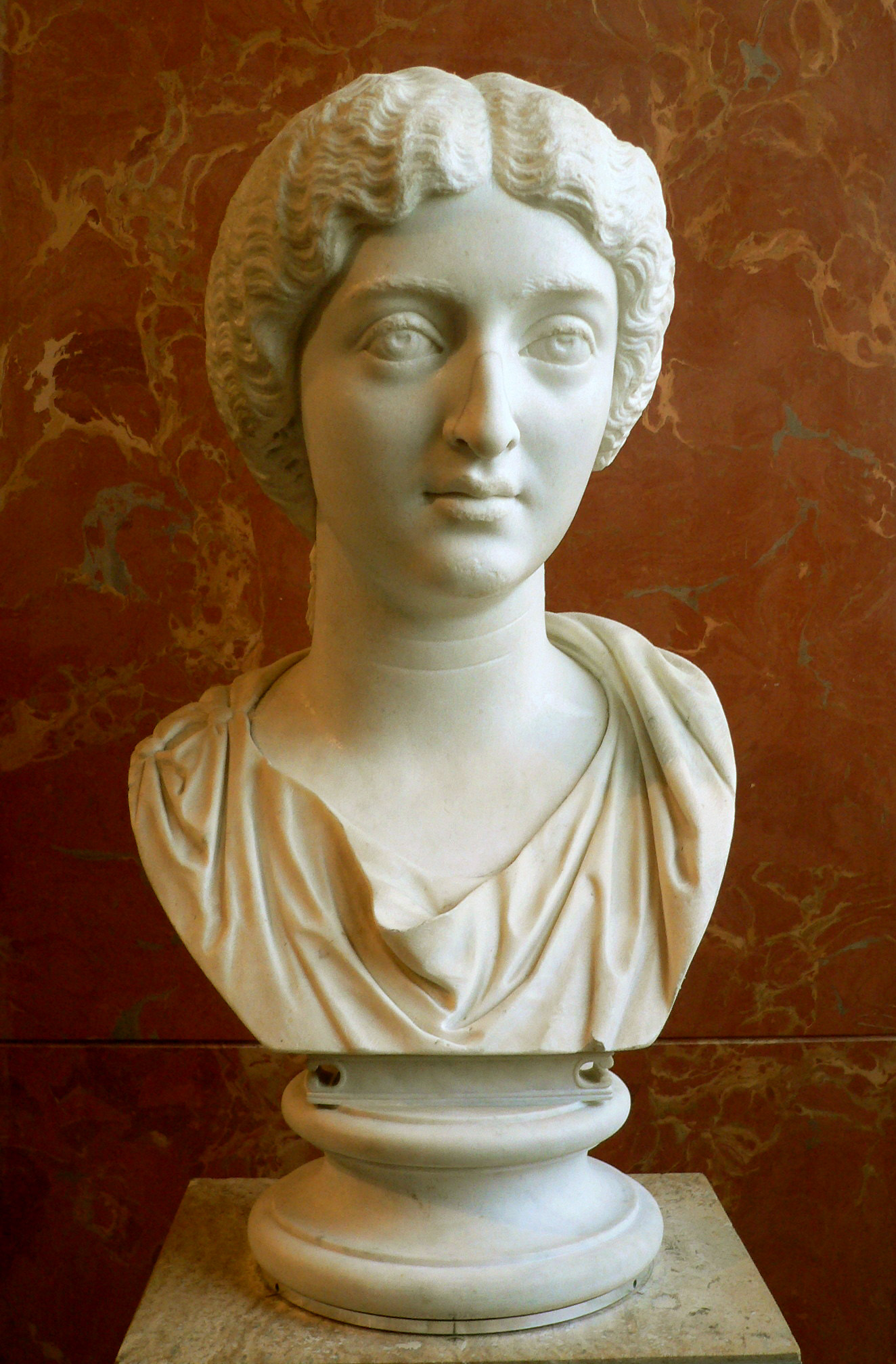 Faustina the Younger (130–175 AD). Marble, ca. 180–190 AD (the bust and pedestal are modern additions). From Gabii.